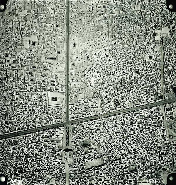 Aerial photograph of Yazd at 1956.